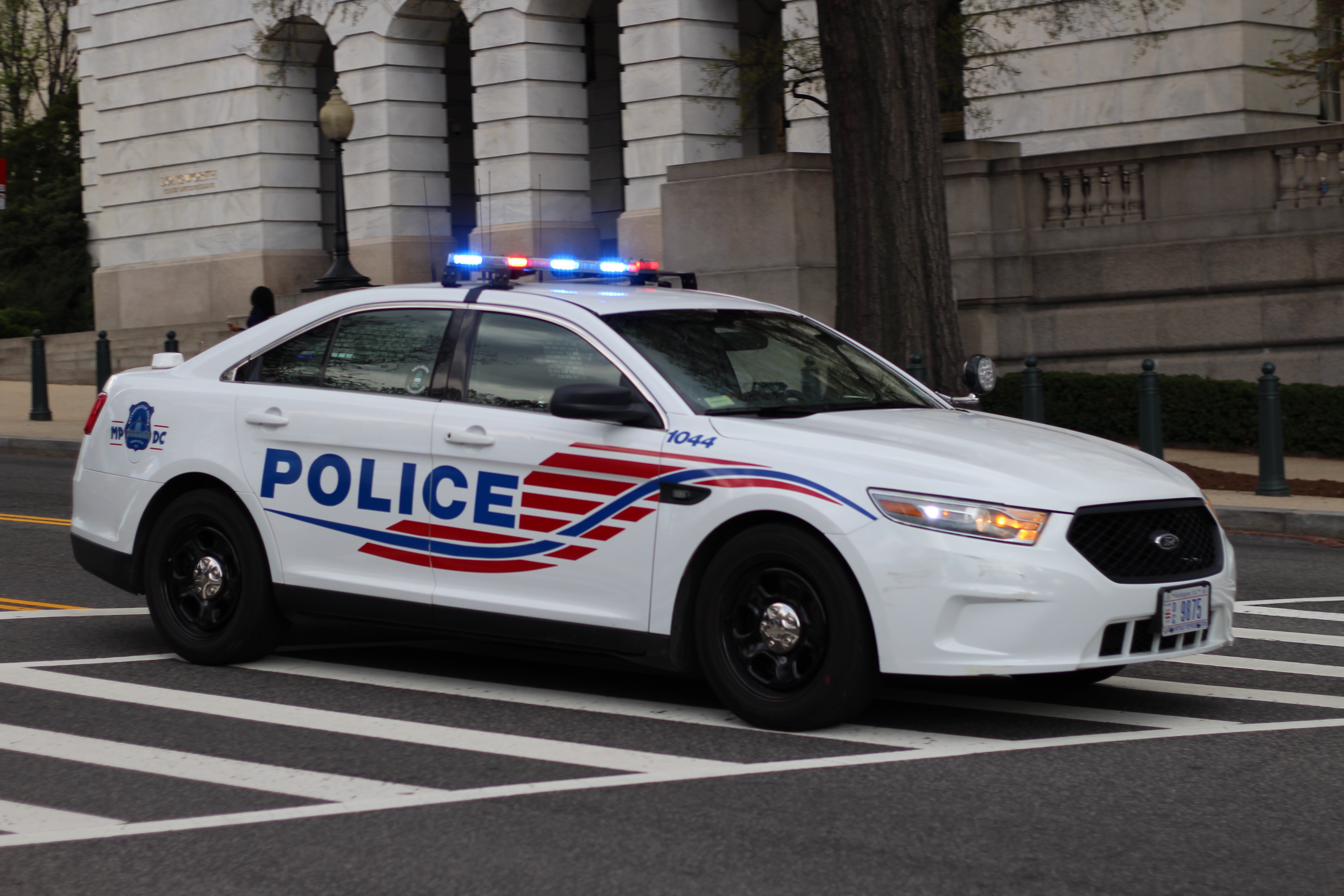 Washington, DC Metro Police Ford Police Interceptor